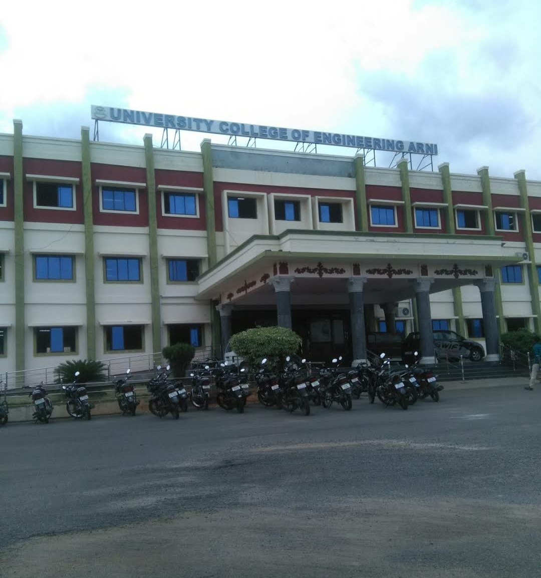 ஆரணி பொறியியல் கல்லூரி நுழைவு வாயில்